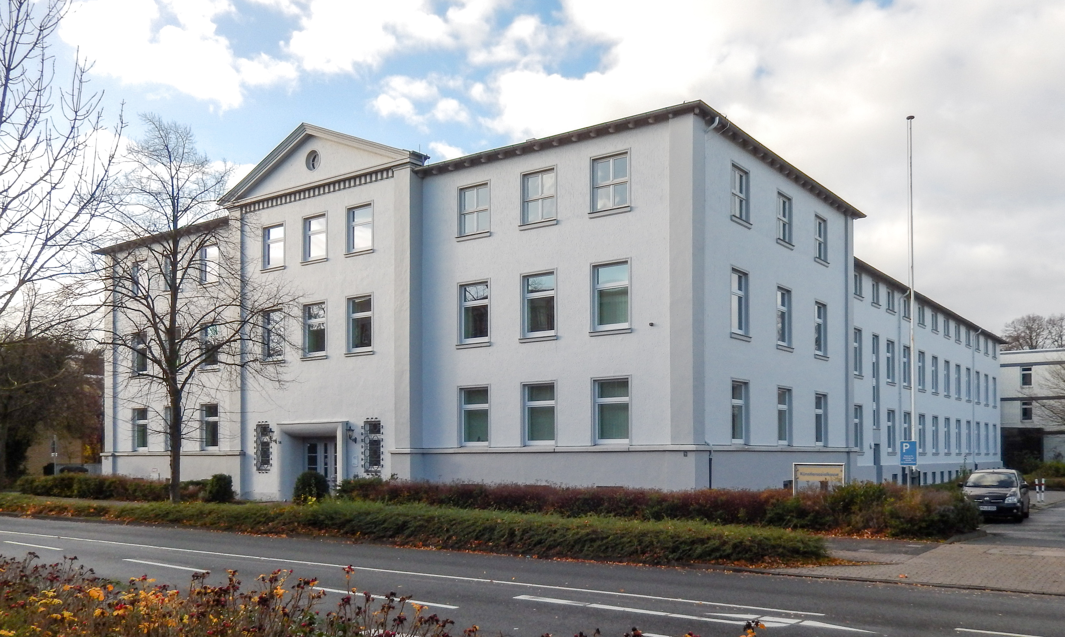 Artists social insurance building in Wilhelmshaven, Germany.